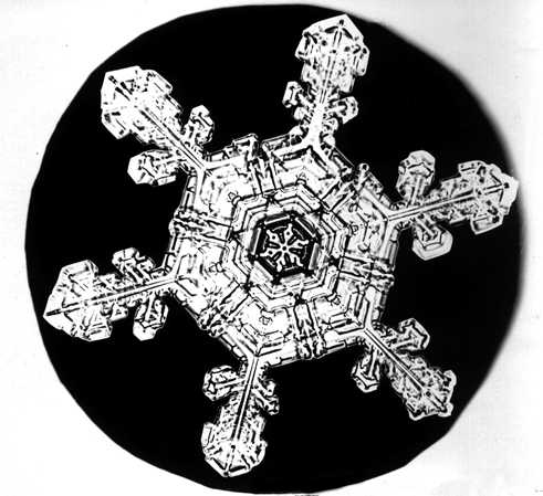 A picture of a Snow Crystal taken by Wilson Bentley, "The Snowflake Man."